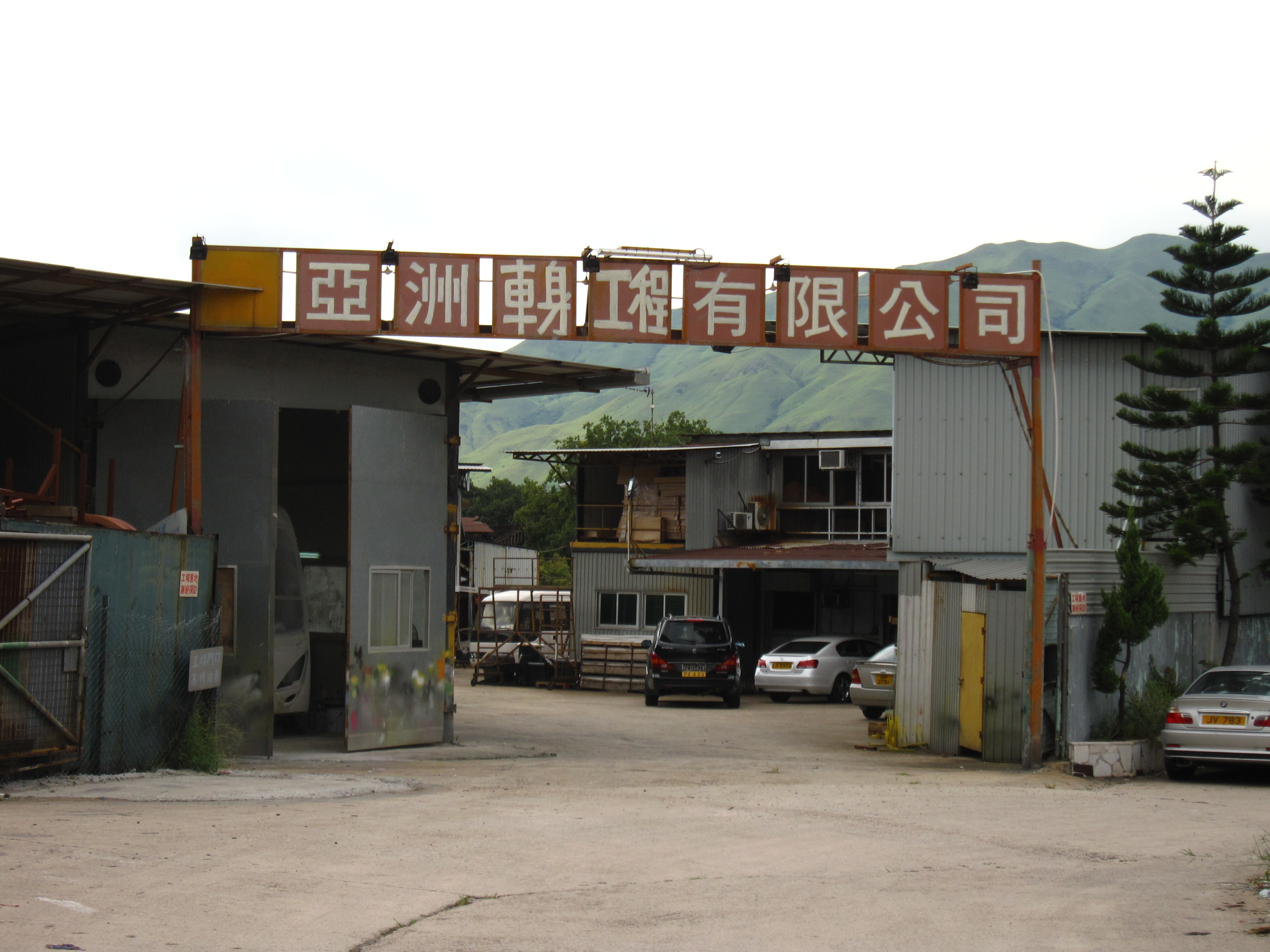 Asia Auto Body Works